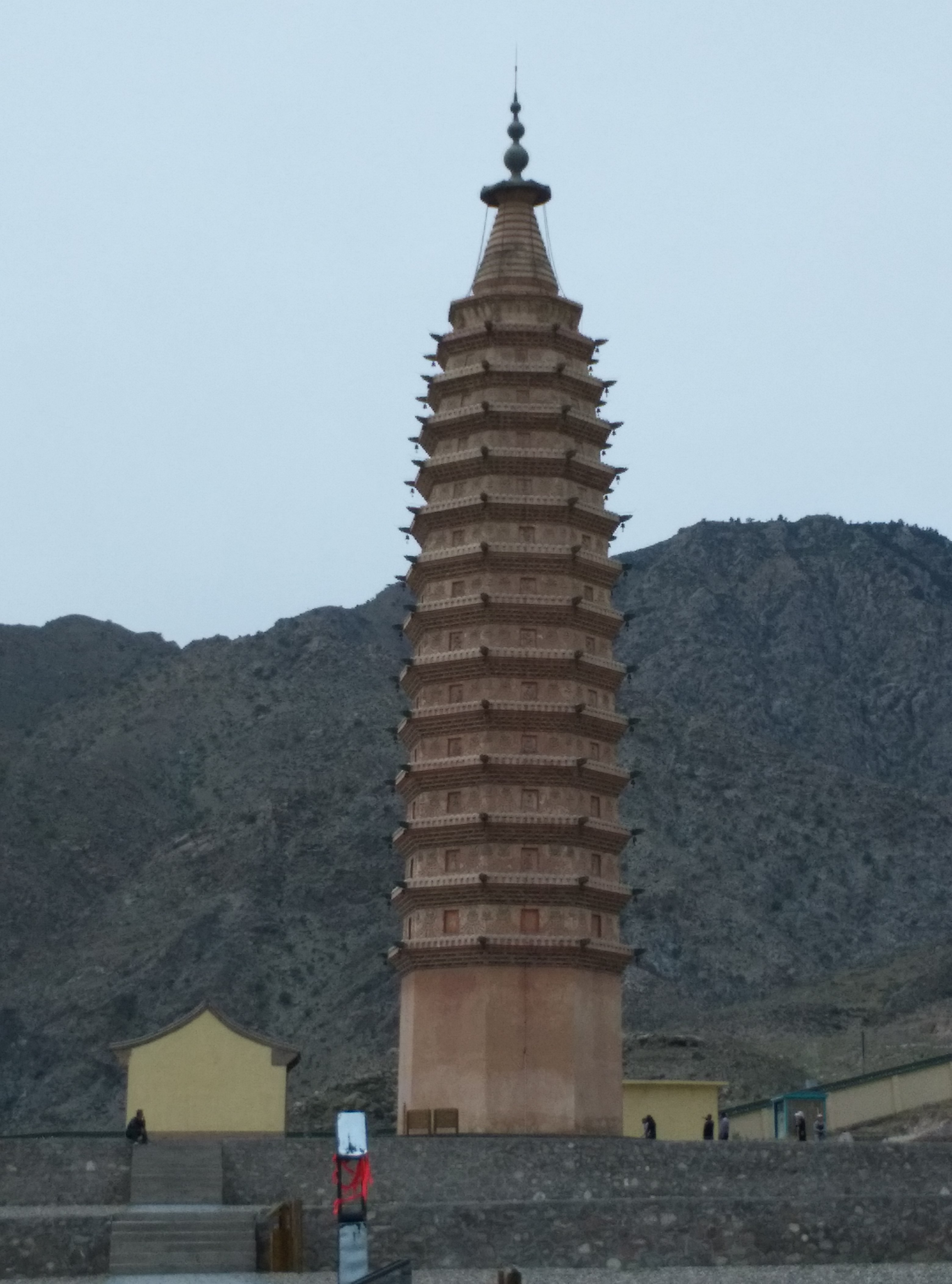 拜寺口双塔中的西塔